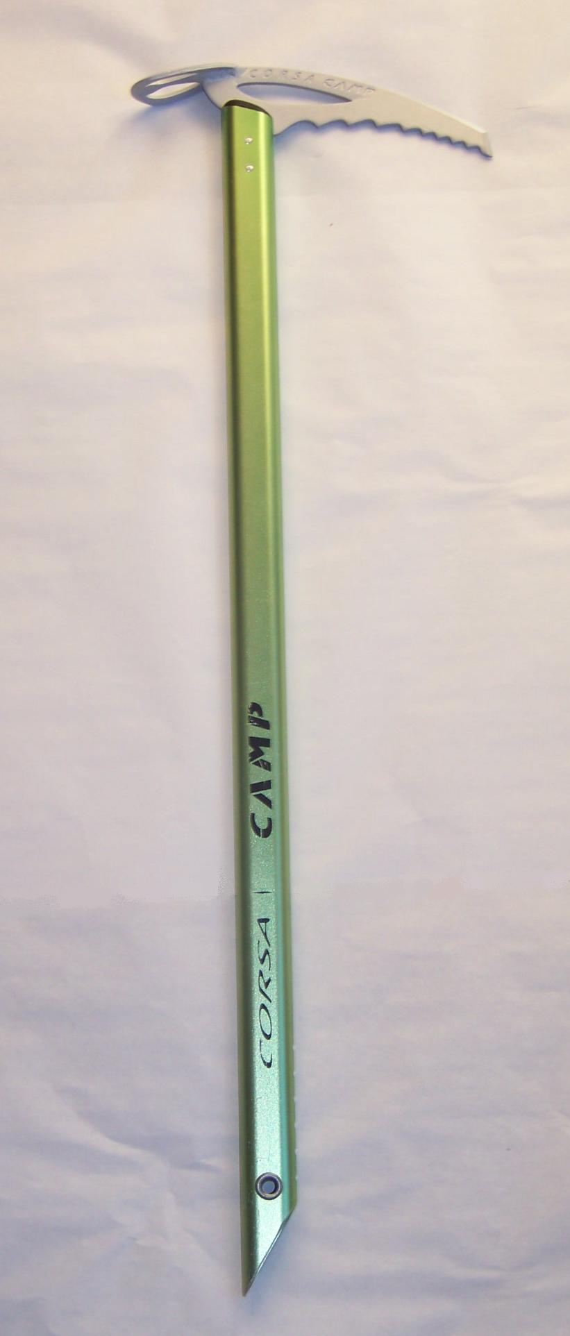 This is a photo of a lightweight C.A.M.P. Corsa ice axe, made in Italy and purchased in 2007. It is 27.5" (70 cm) long, and weighs 9.75 oz. (280 grams). It is made of aluminum alloy.